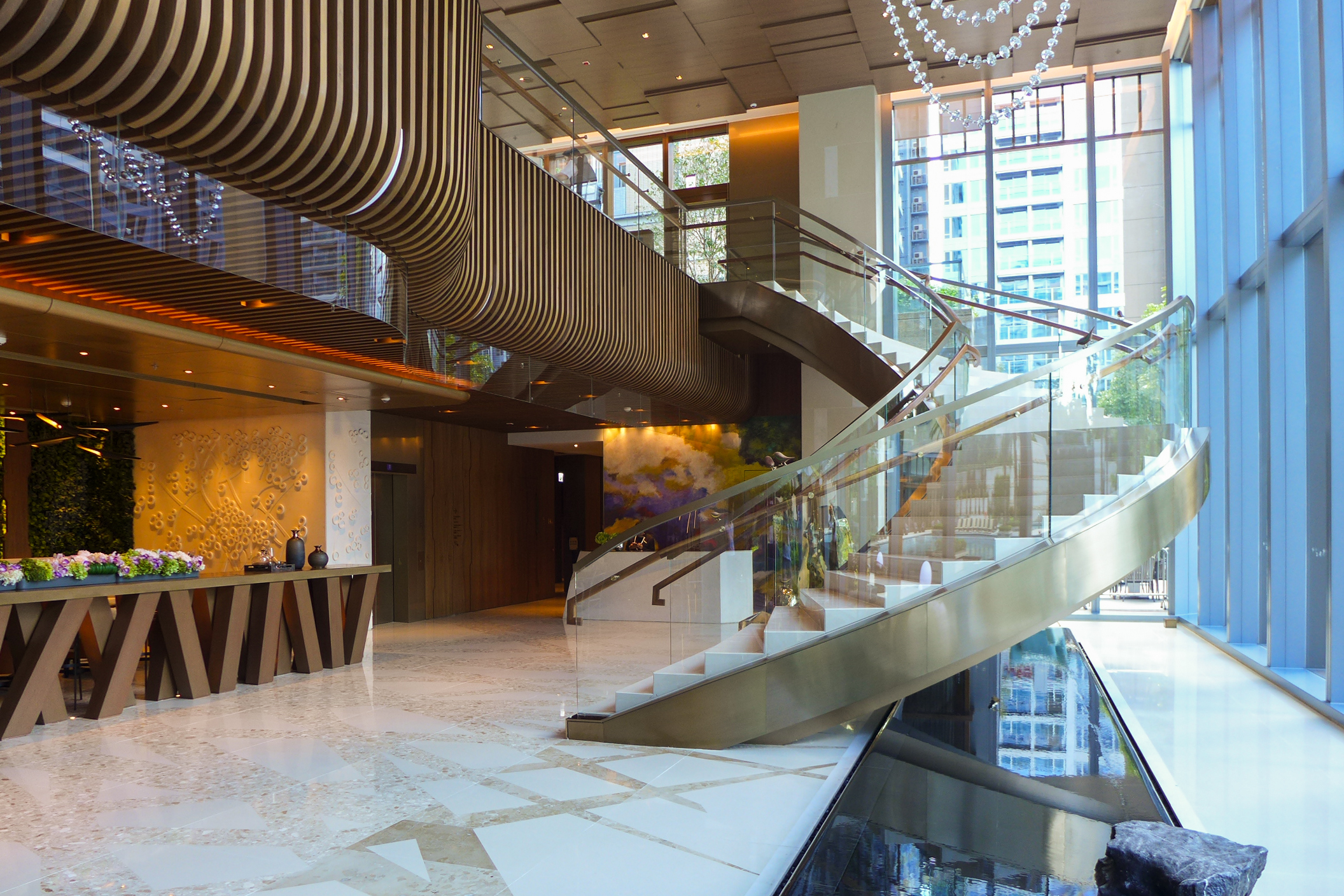 Park YOHO Club GARDA Lobb